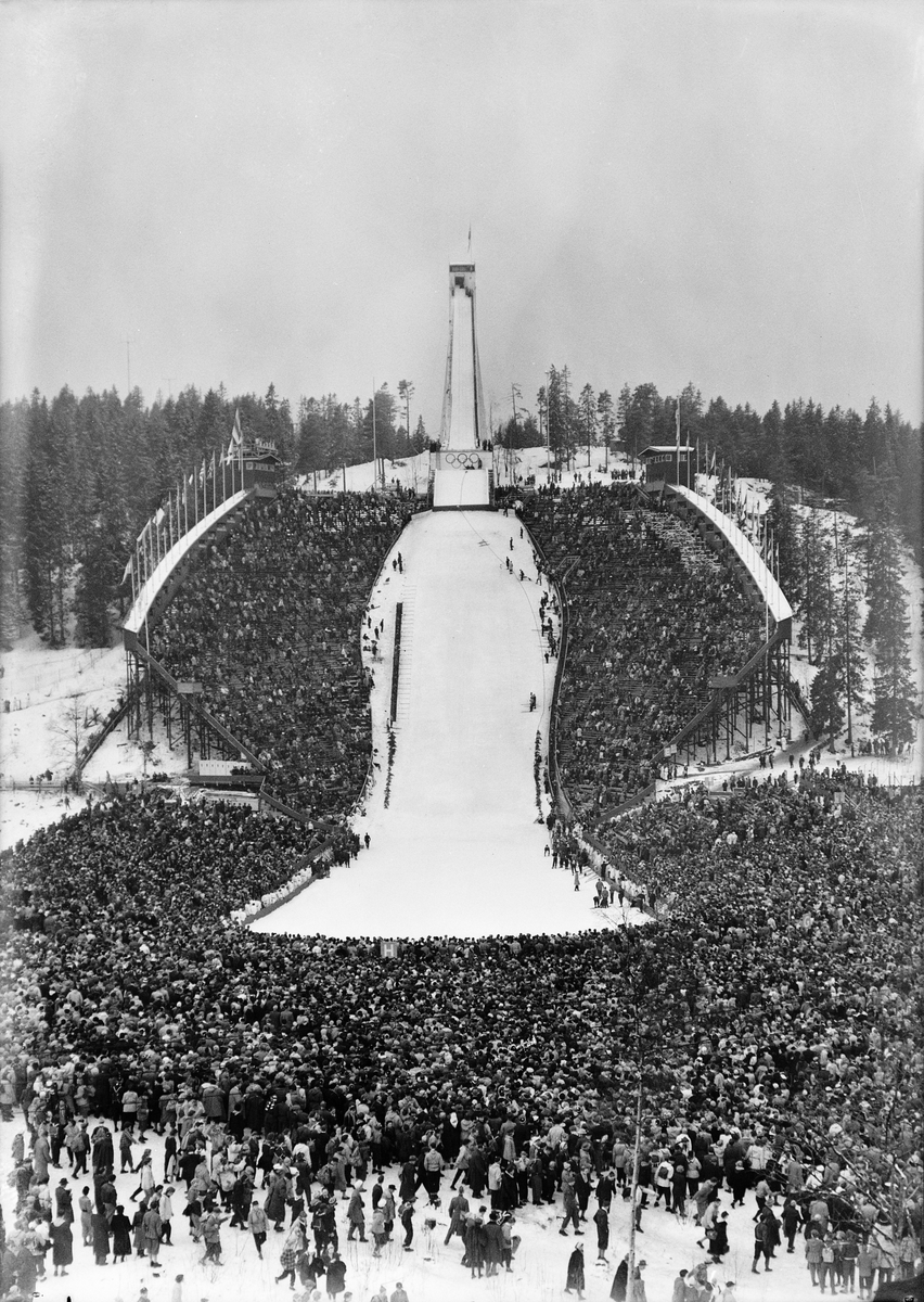 Holmenkollbakken during the 1952 Winter Olympics.